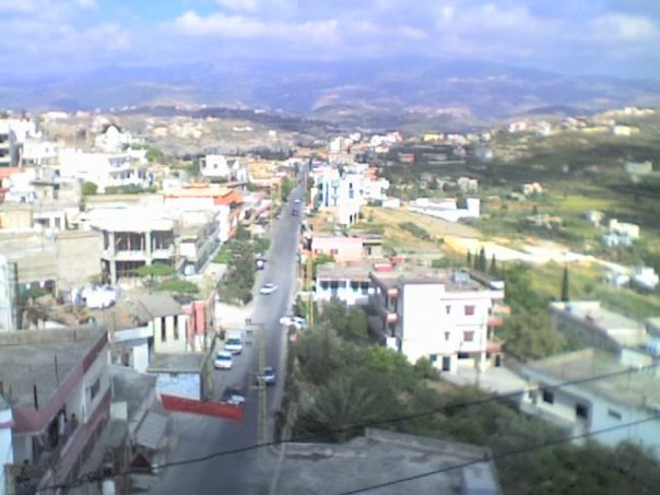 View from Anqoun, South Lebanon